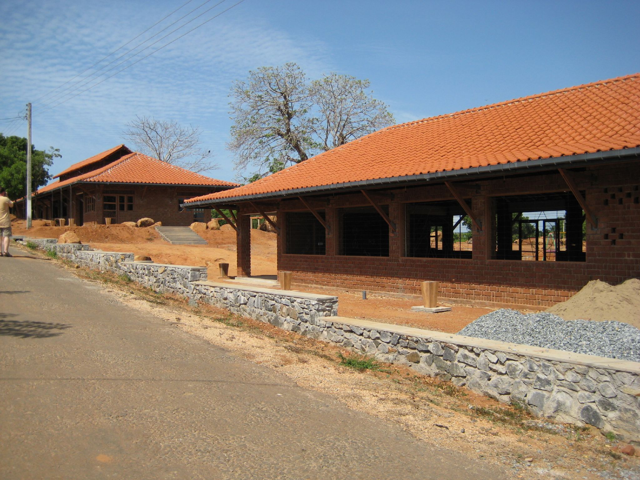 Yodakandiya Community Complex, Sri Lanka. A project by Architecture for Humanity. The design is under a CC Developing Nations License